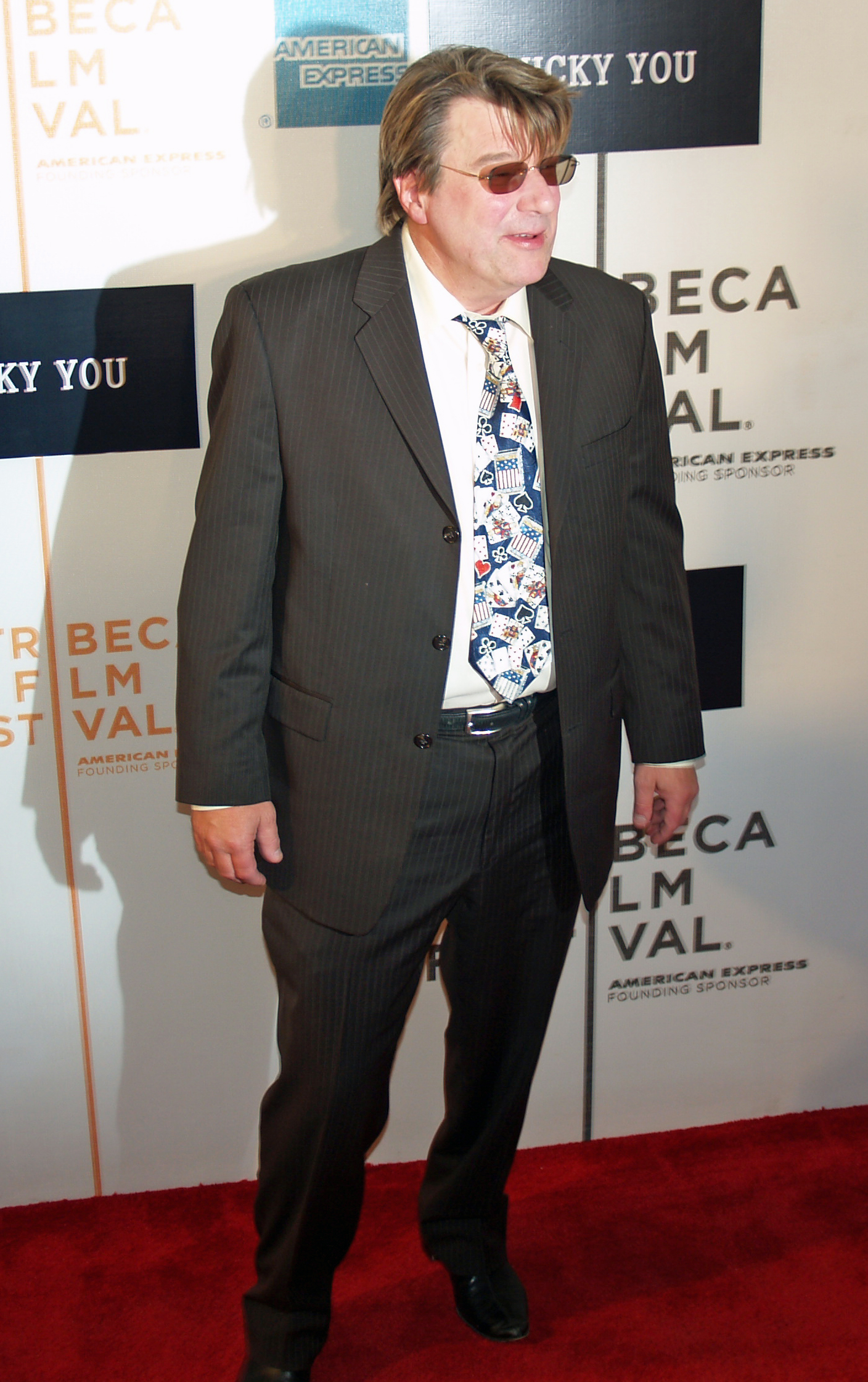 Christopher Young by David Shankbone